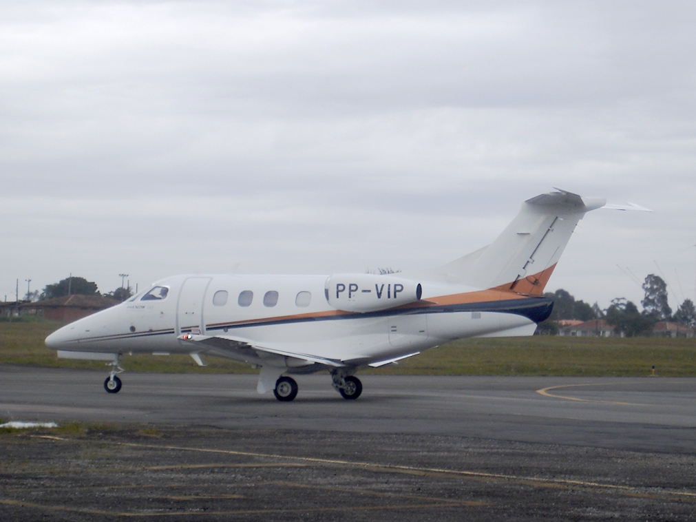 Embraer Phenom 100 PP-VIP. Bacacheri Airport, Curitiba - PR, Brazil